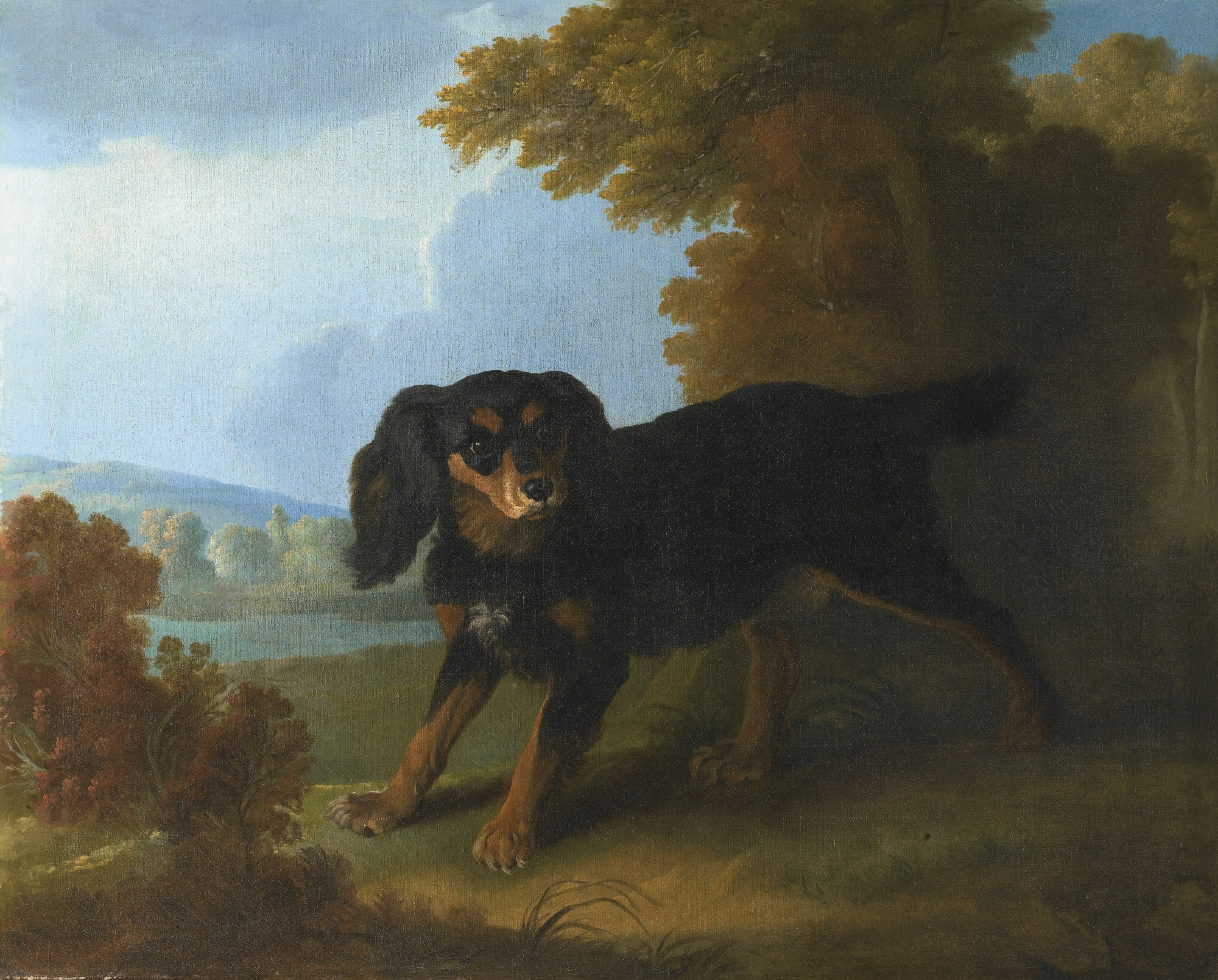 Portrait of Mimi, Madame de Pompadour's King Charles Spaniel, in a landscape